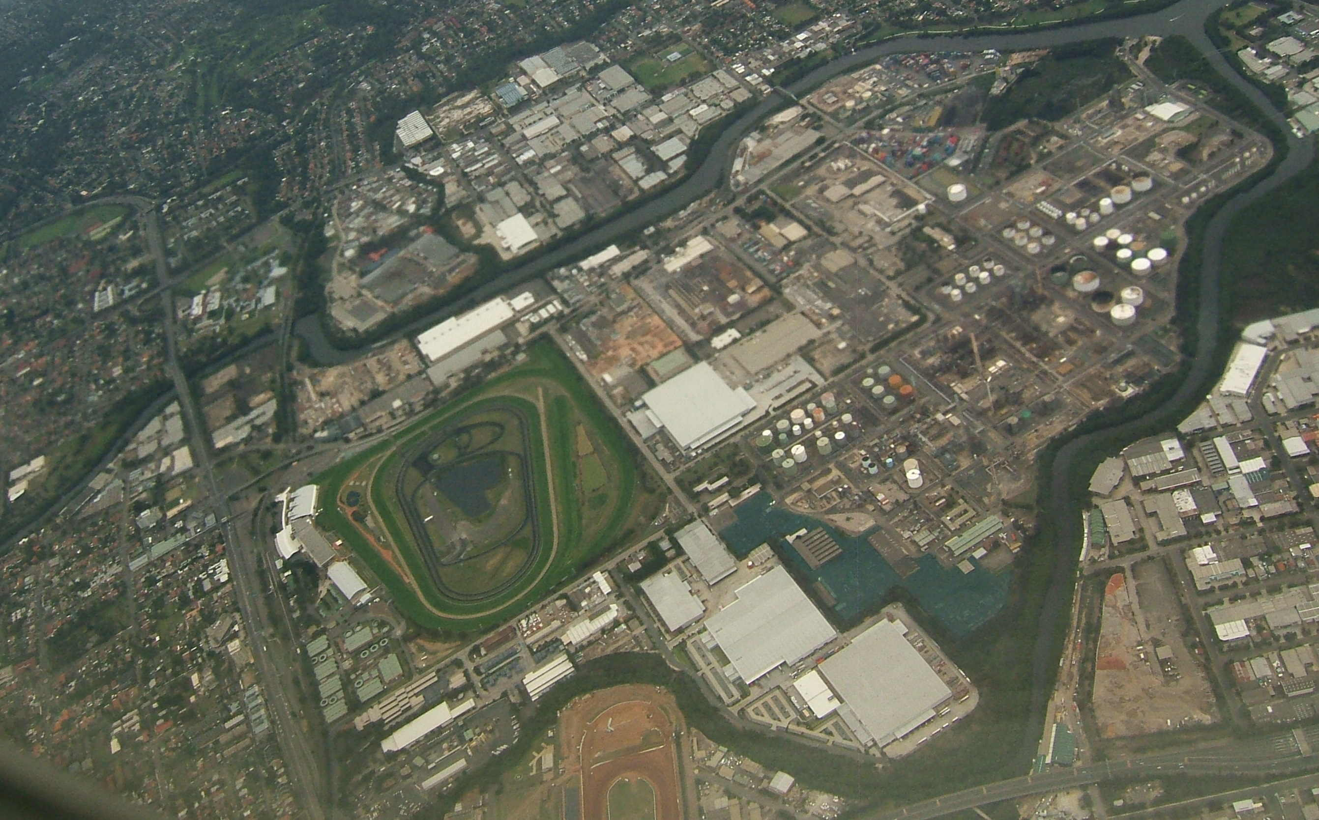 Aerial view of the said location in Sydney